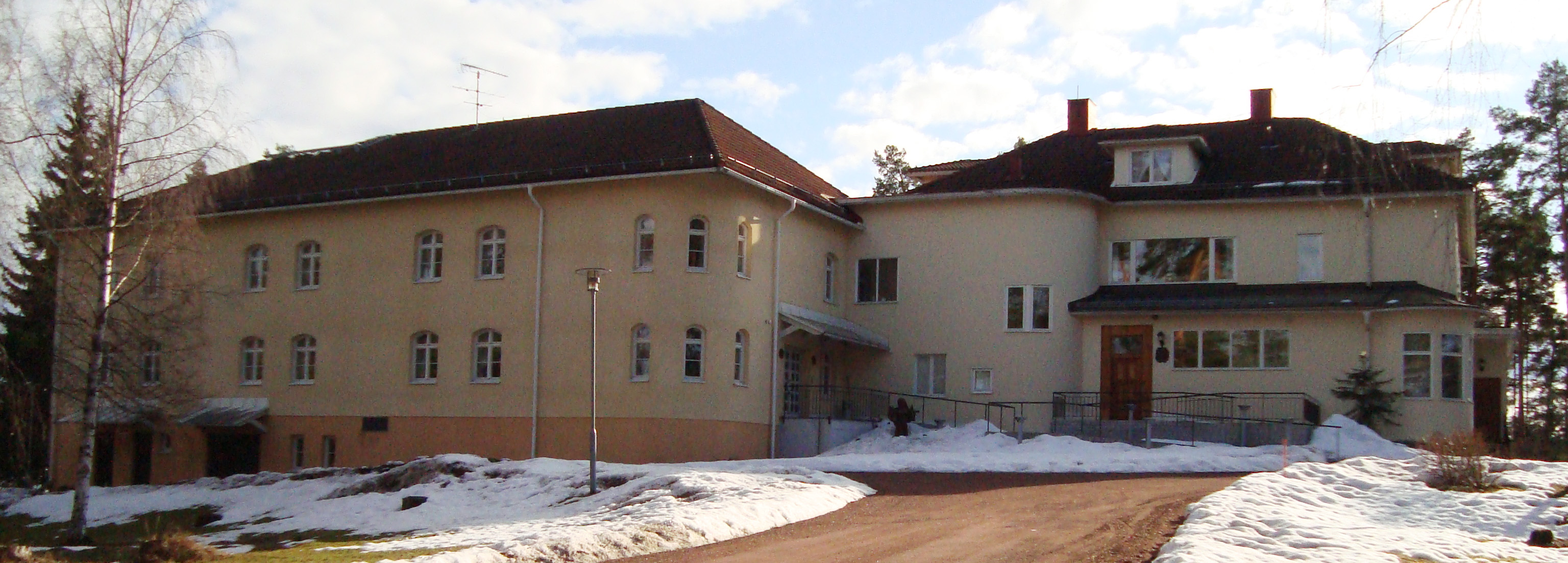 Birgittagården, a Bridgettine monastery near Falun, Sweden